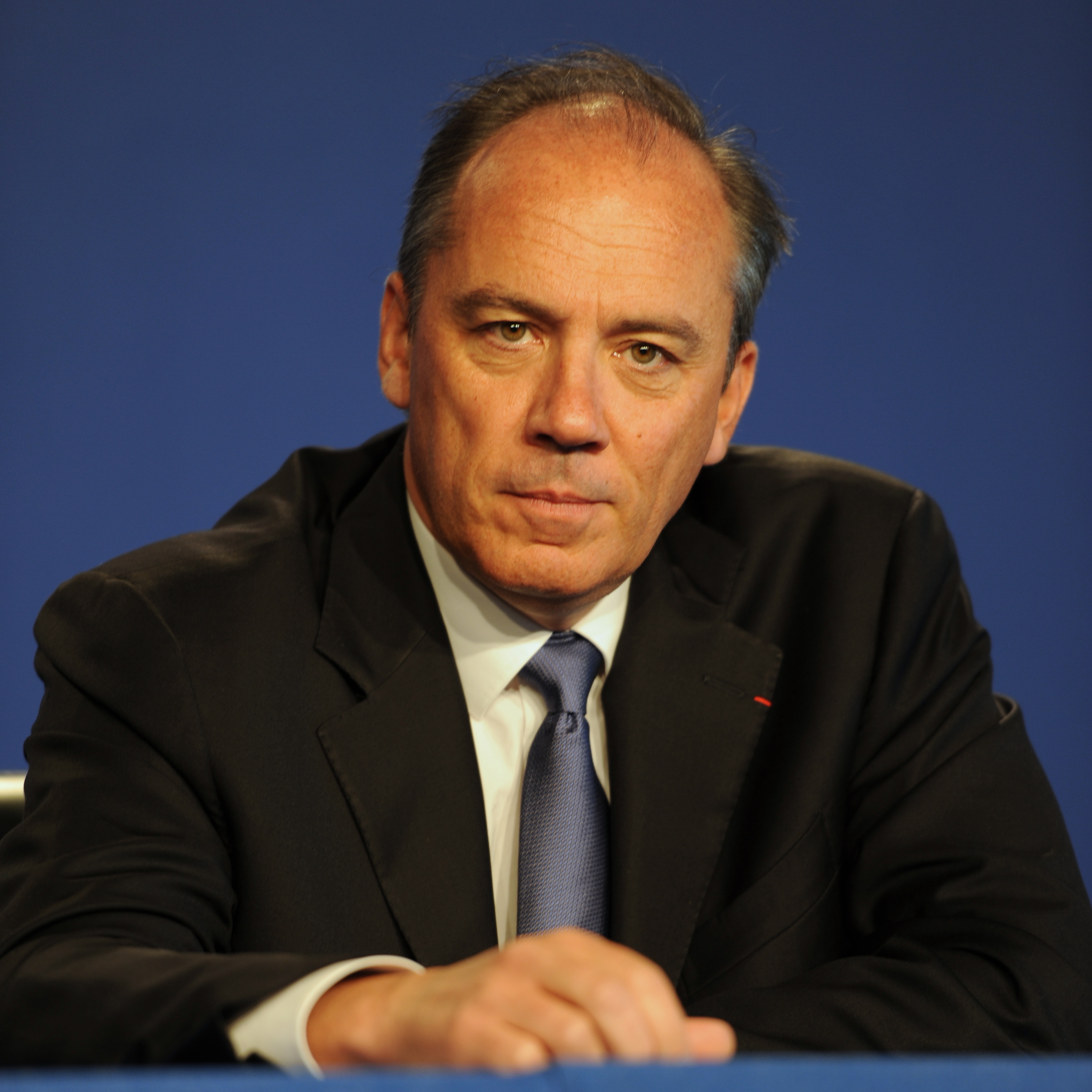 Stéphane Richard, CEO of France Telecom - Orange, at the press conference about the e-G8 forum during the 37th G8 summit in Deauville, France.